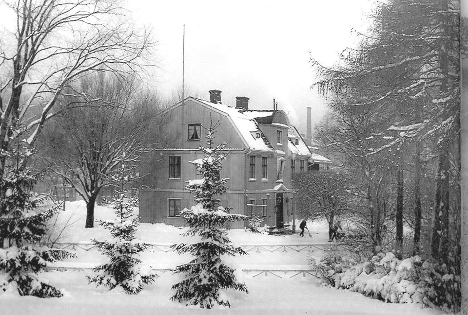 The former mansion Olivedal in Gothenburg.